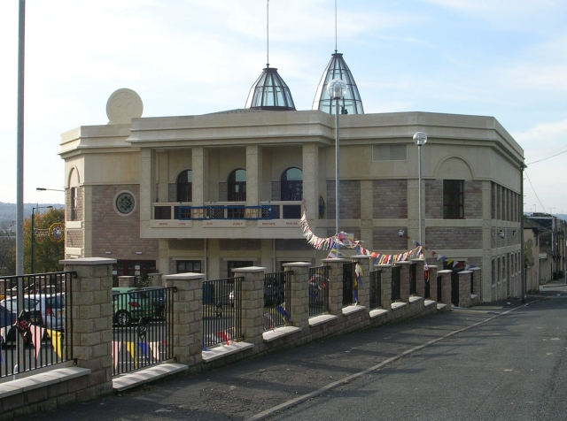 Hindu Temple - Leeds Road